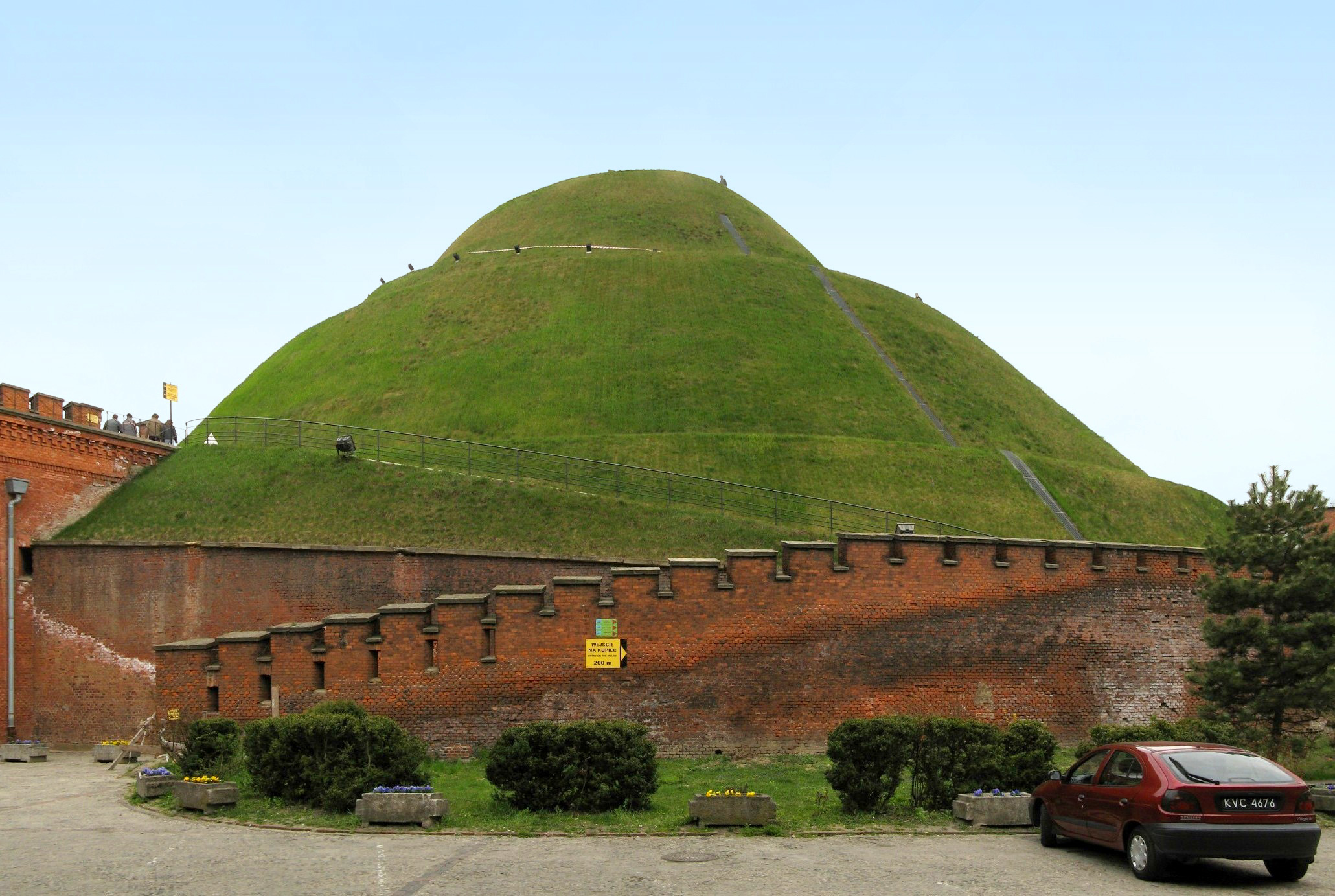 Kościuszko Mound in Krakow